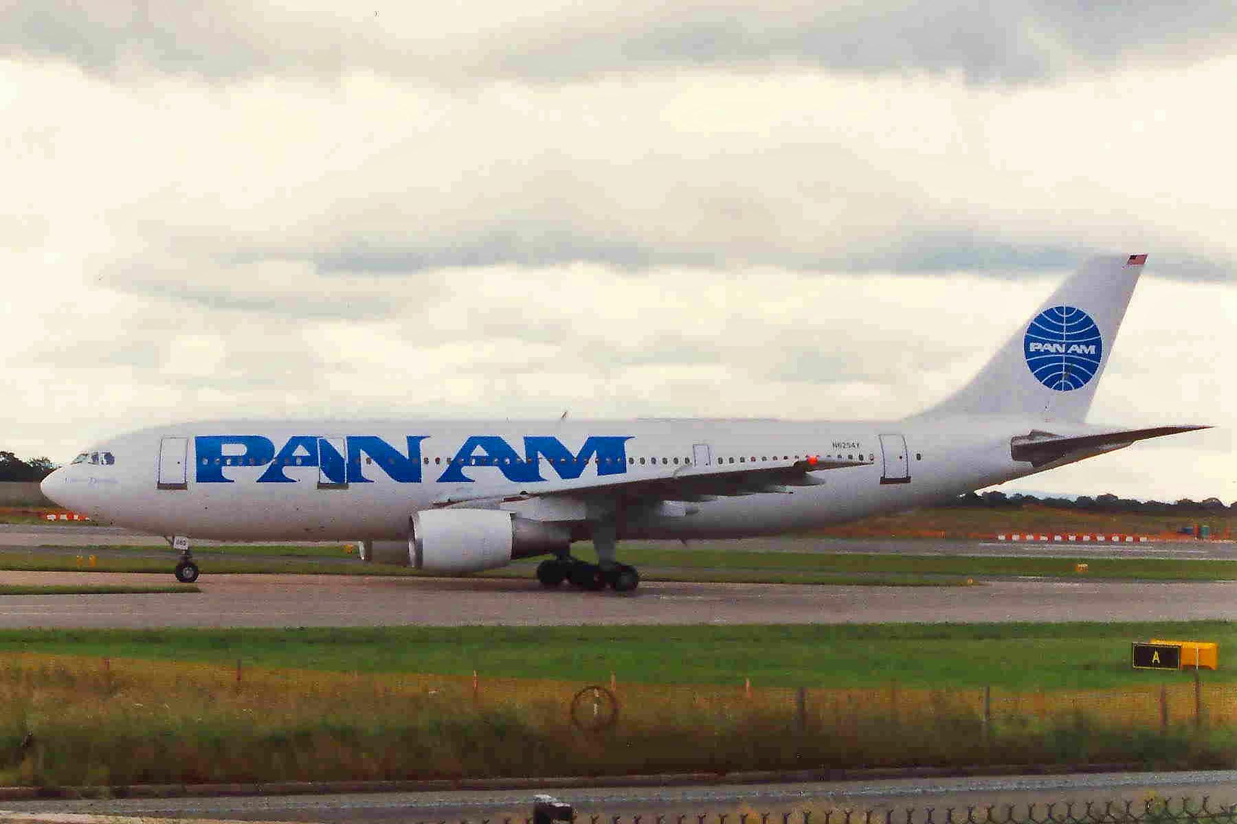 A picture of an airplane